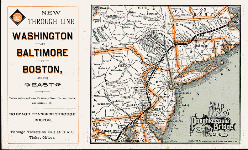 An advertisement for the Poughkeepsie Bridge Route. It is from before 1892 due to its use of the Central New England and Western Railroad name.